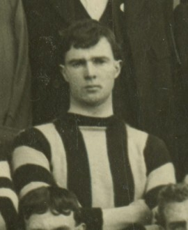 Photograph of Roy Gray in 1912